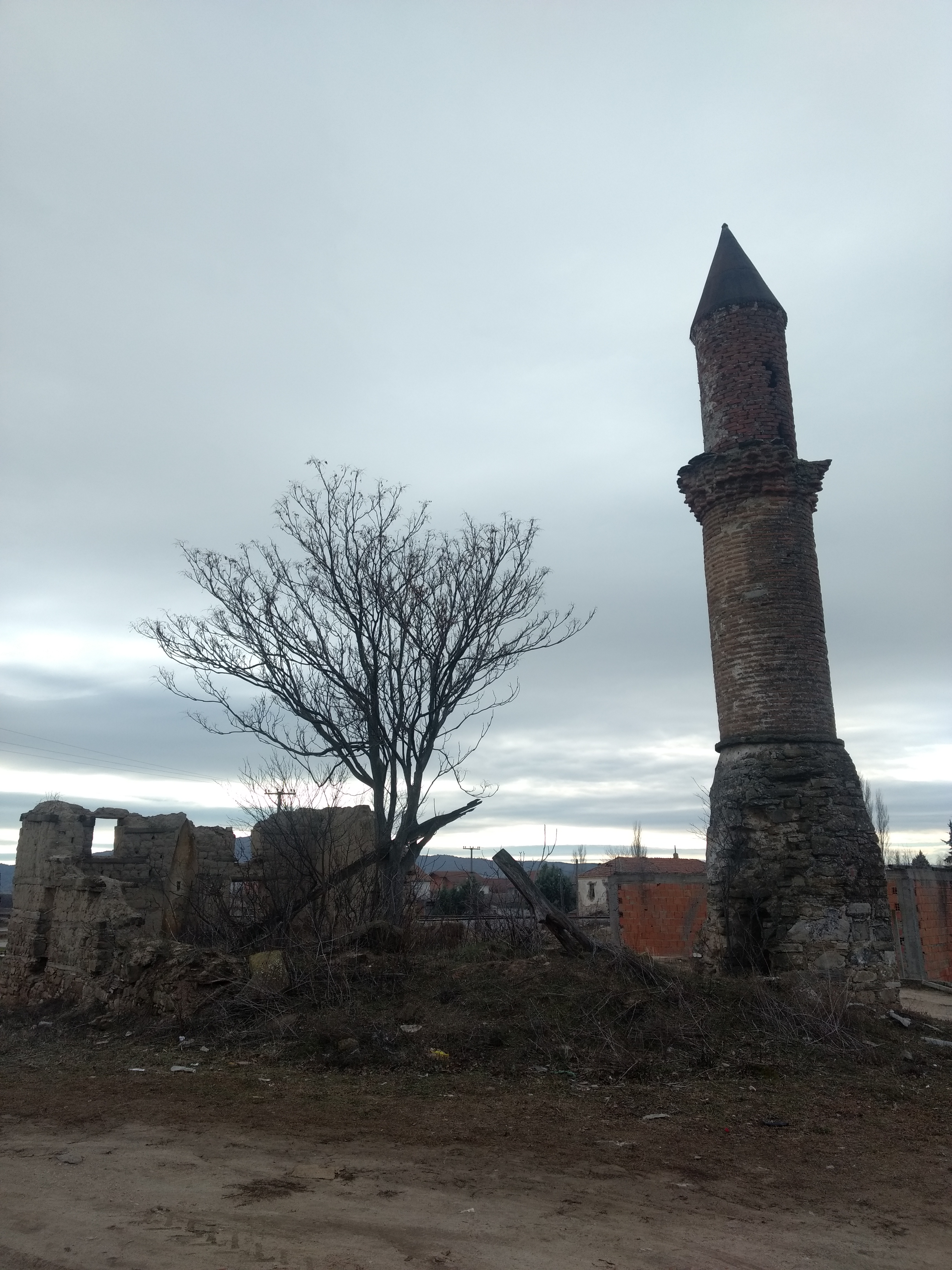 Ruins of a mosque in Lozovo, Macedonia.